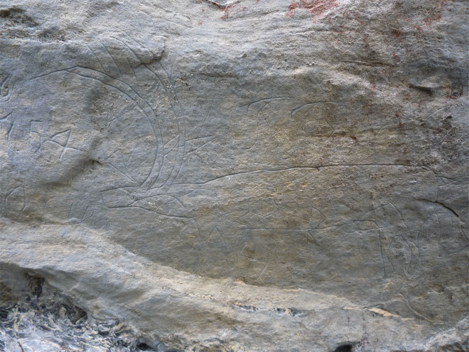 Stonecarvings from around year 1000 after Christ of Runes and animal shapes. Name of the Stone: "Skutesteinen" in Setesdal Storhedder near Bykle, Ryfylkeheiane, Norway.